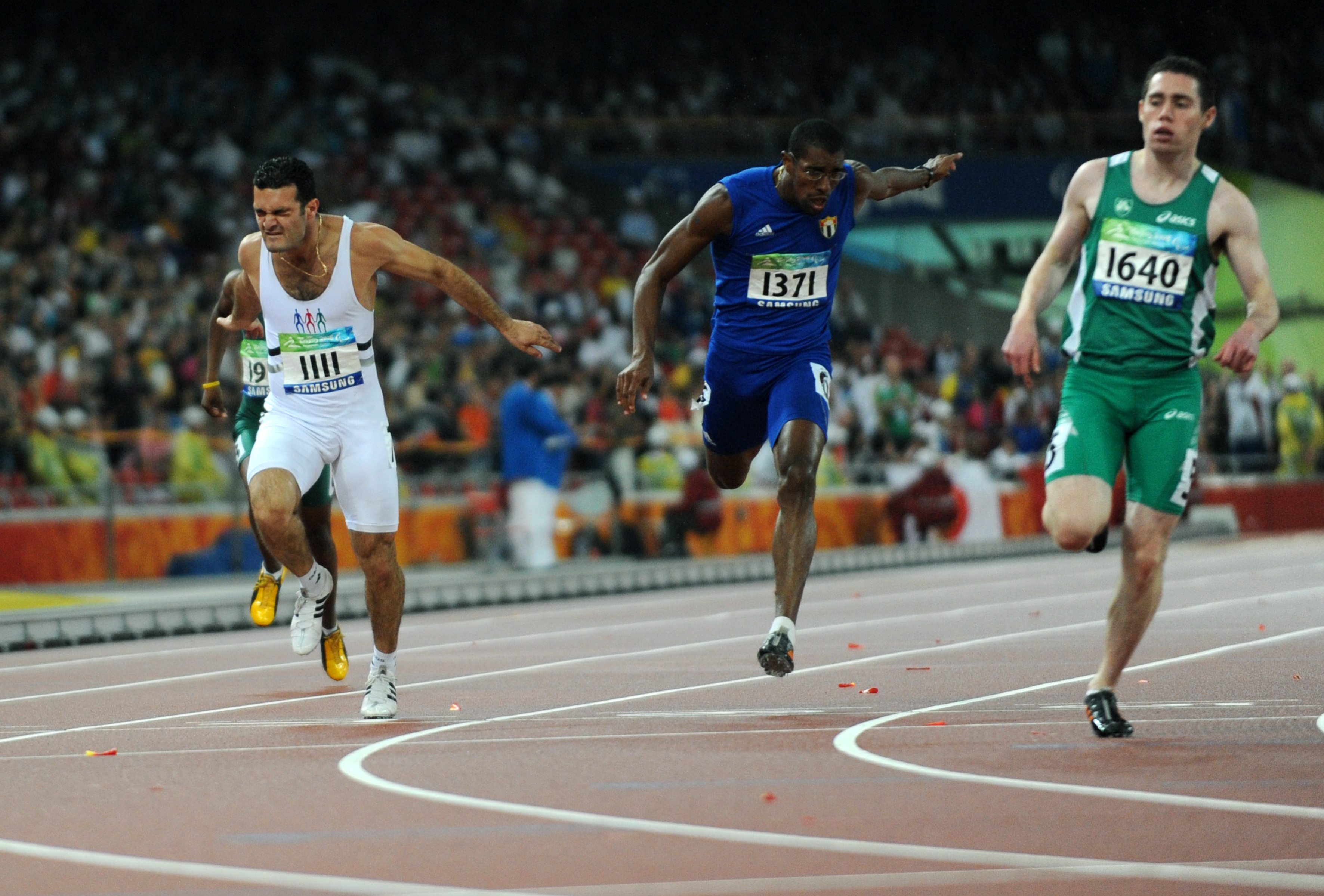 Vugar Mehdiyev at the 2008 Summer Paralympics